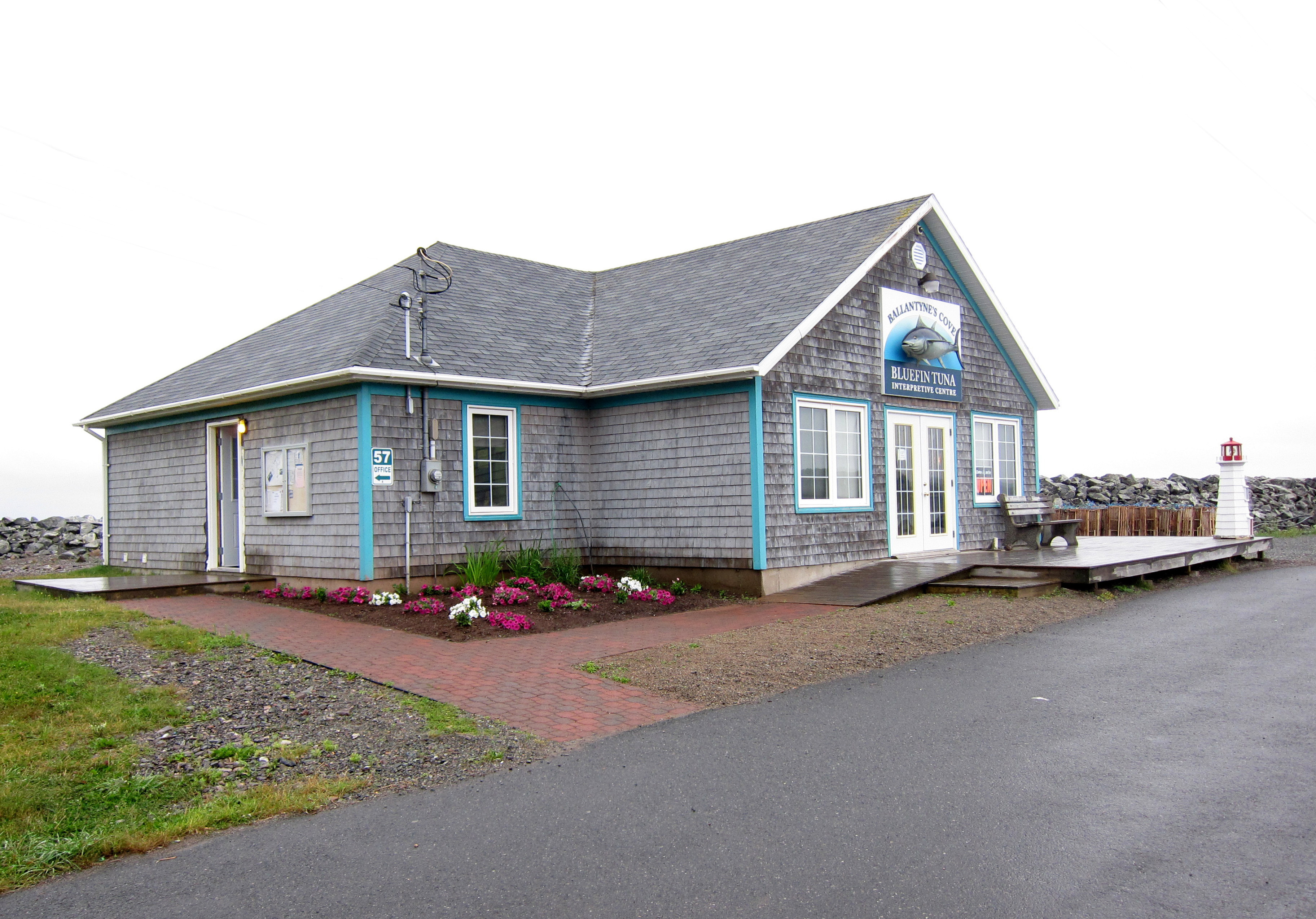 Ballantyne's Cove Bluefin Tuna Interpretive Centre at Ballantyne's Cove Small Craft Harbour. Ballantyne's Cove is a community in Antigonish County, Nova Scotia, Canada, lying on a small cove of the same name at the north-western end of St. George's Bay.